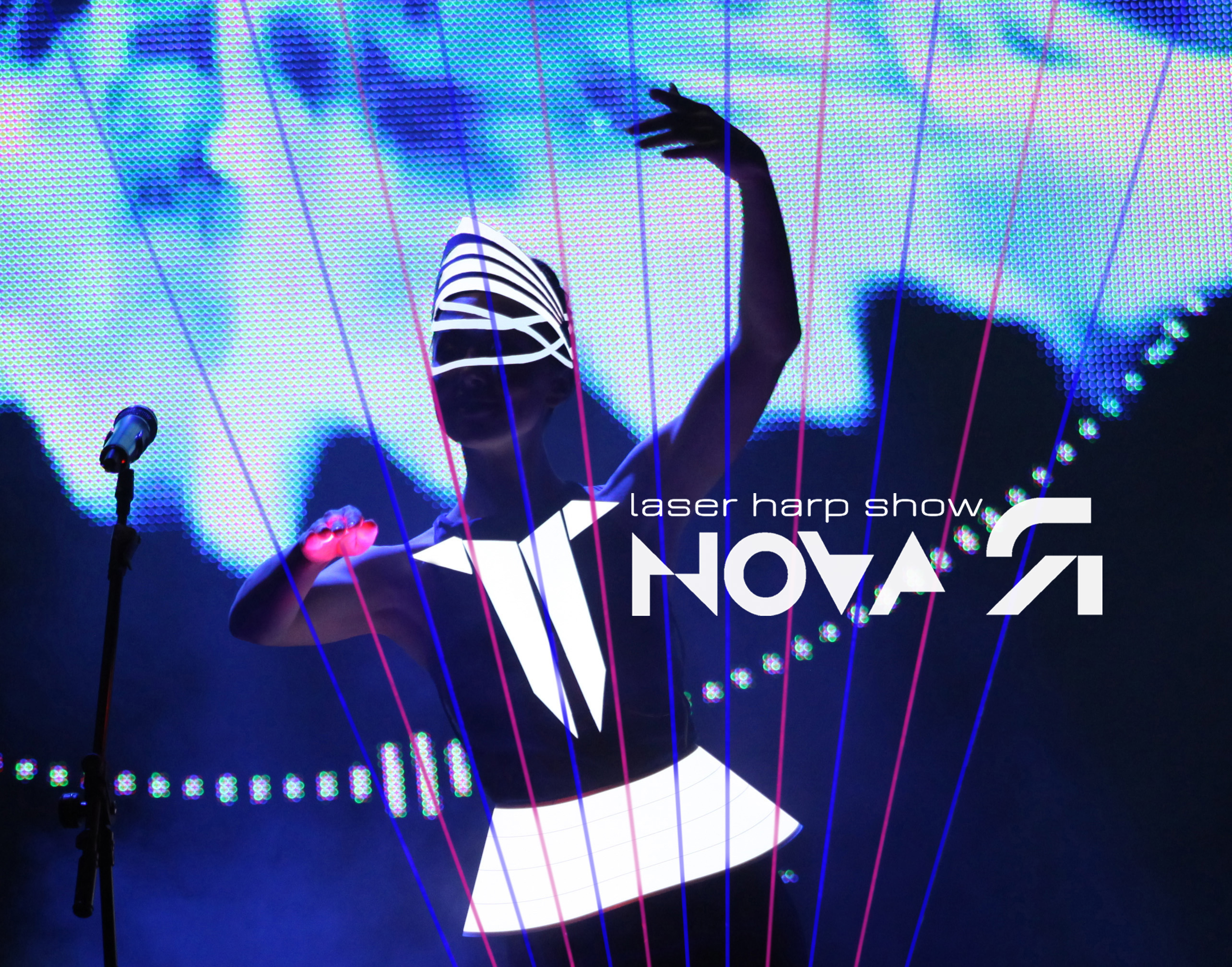 «novaYA» is the only opera diva in the world who plays the laser harp.